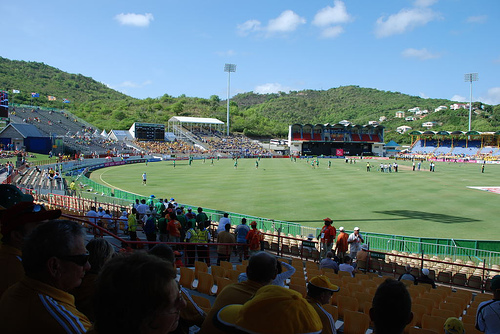 The 2010 ICC World T20 tournament in progress at St.Lucia